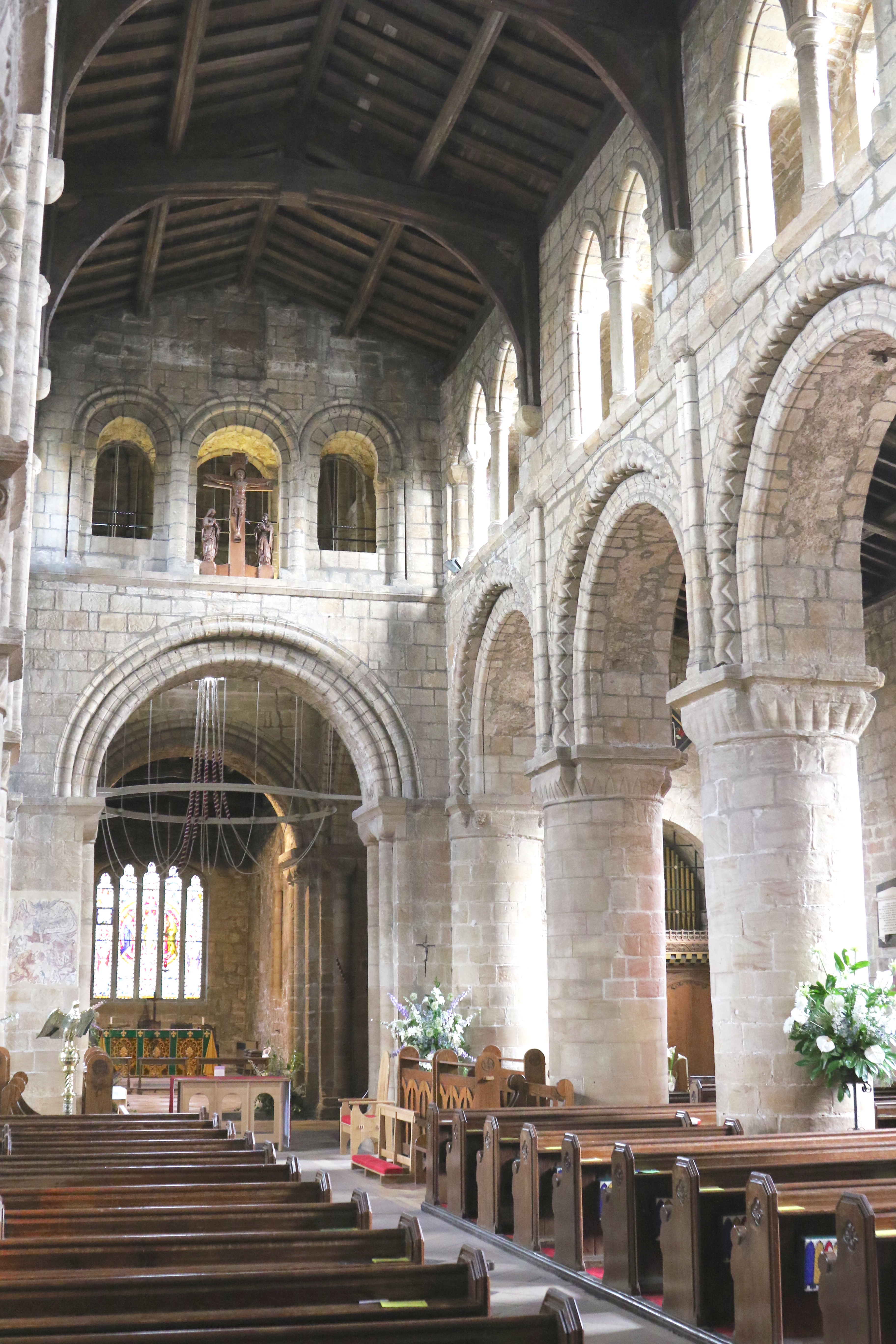 Magnificent example of Norman architecture.